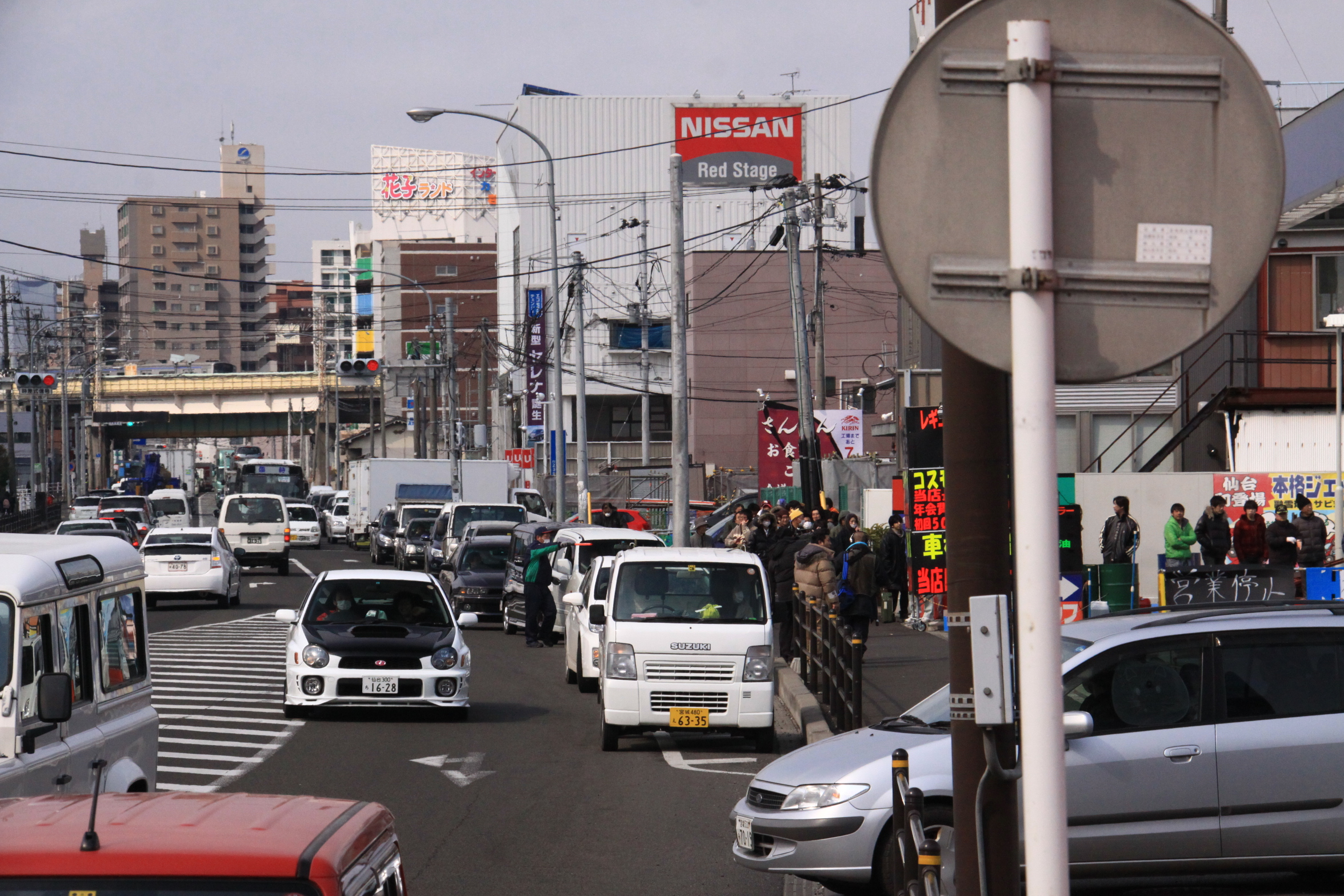 Car and people who queue up in gas station for fuel.